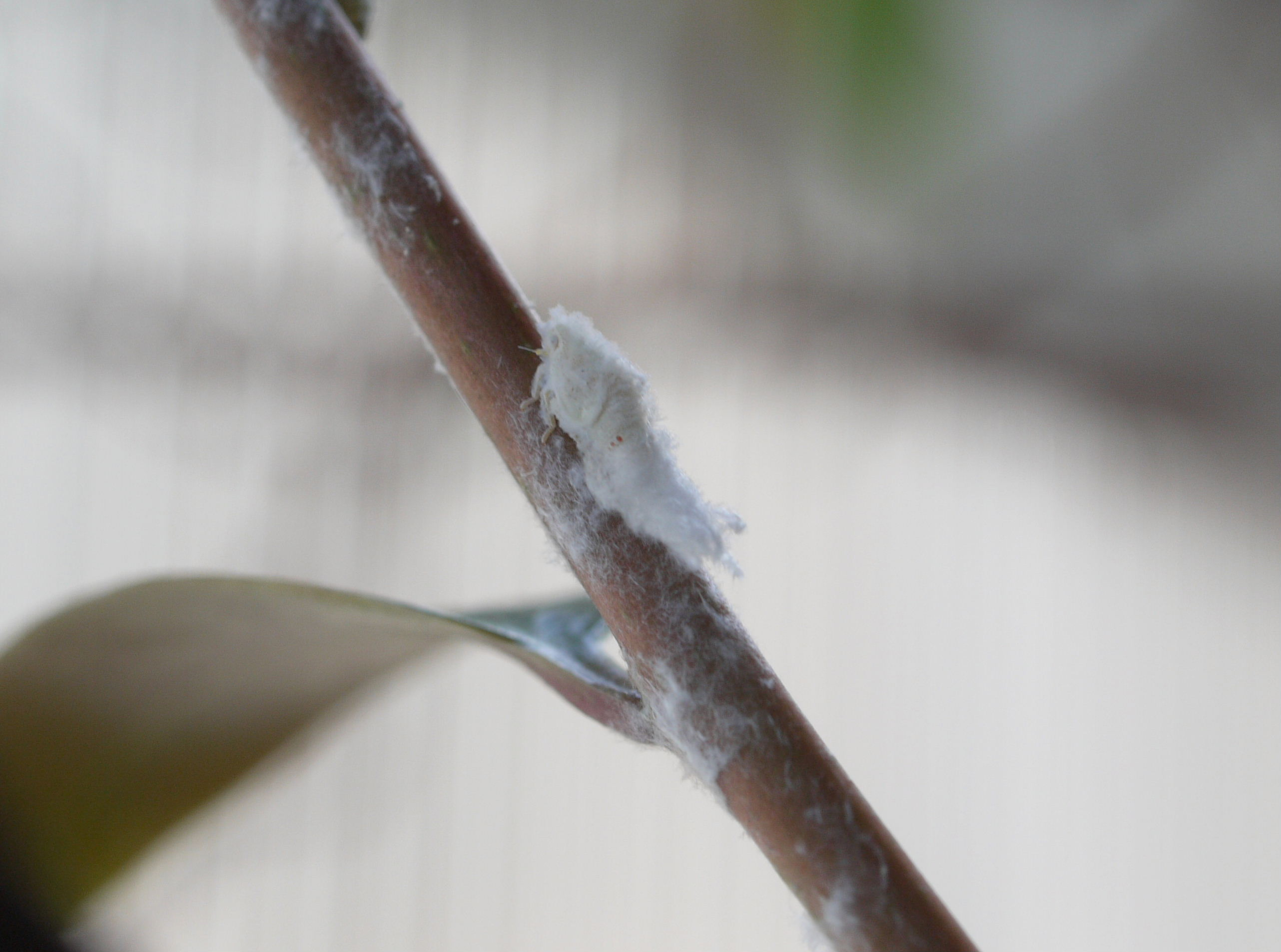 Geisha distinctissima larva